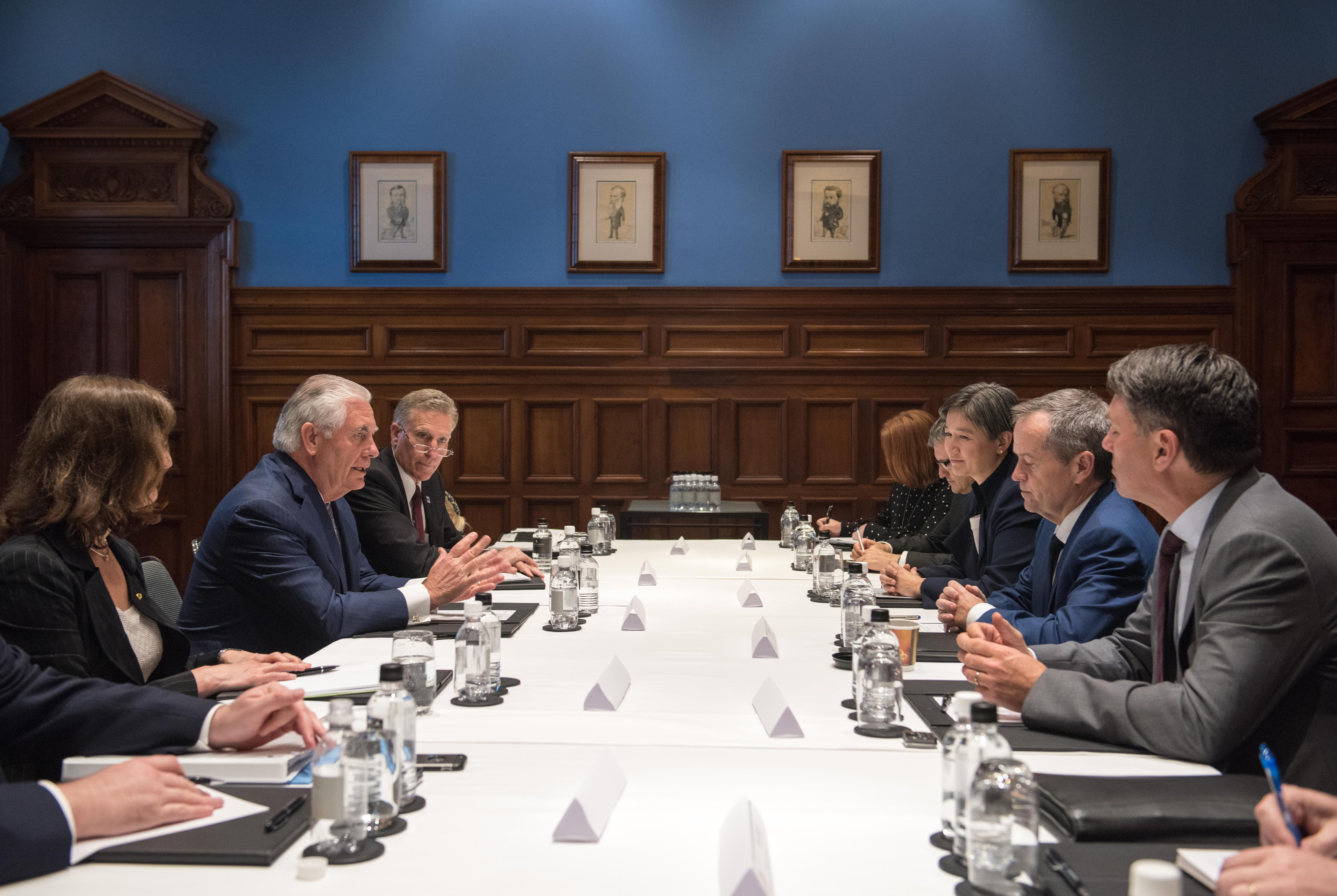 U.S. Secretary of State Rex Tillerson and U.S. Charge d'Affaires James Carouso met with Australian Leader of the Opposition Bill Shorten and Cabinet members during the 2017 Australia Ministerial Consultations (AUSMIN) in Sydney, Australia, on June 5, 2017. [State Department Photo/ Public Domain]